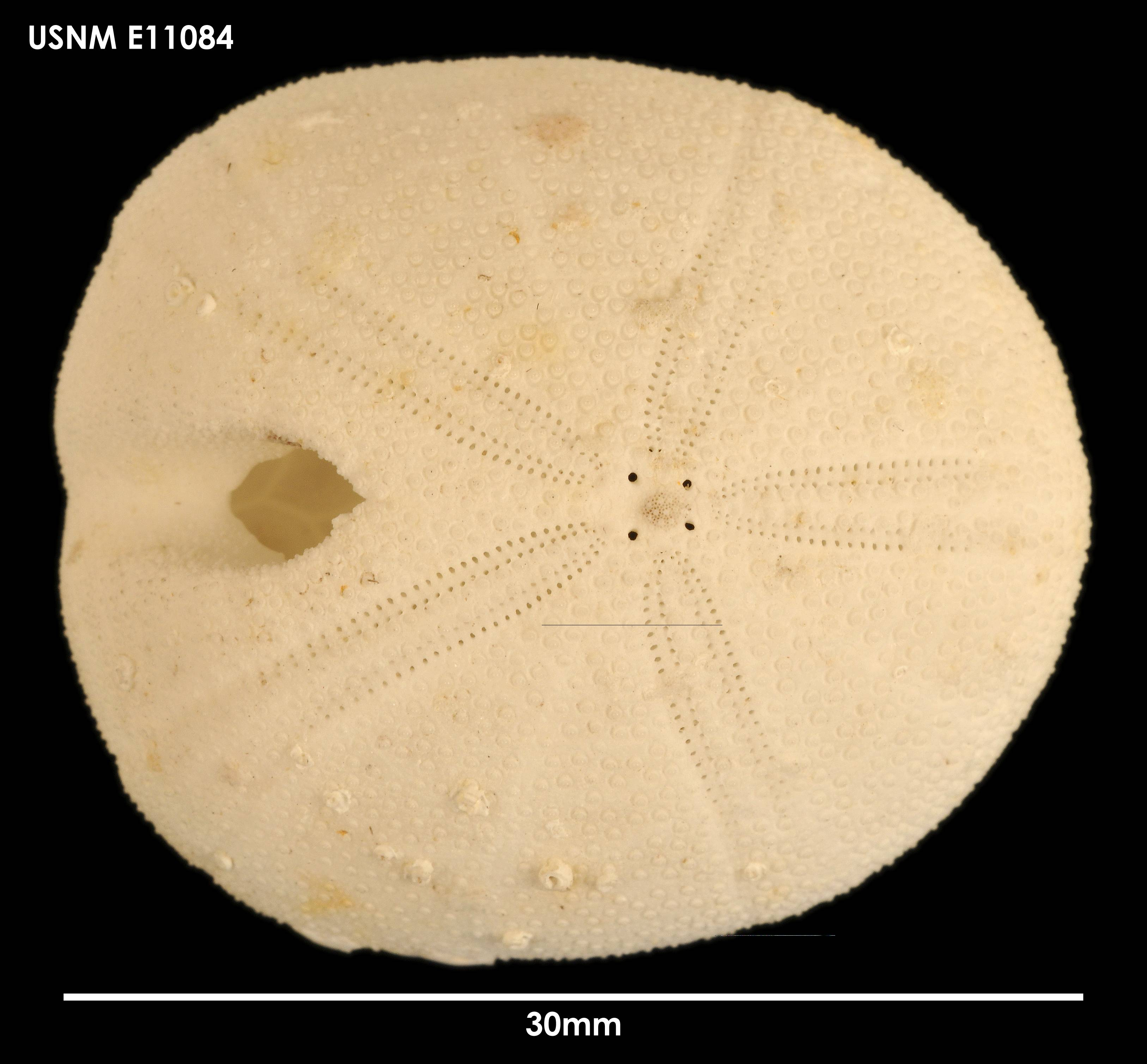 PRESERVED_SPECIMEN; Preparations: Dry; Apatopygus recens (Milne Edwards, 1836); Individual count: 3; Type status: (no data); Identified by: Chesher, R. H.; Event date: 19650219T00:00:00Z; Additional description: Dorsal view, dry specimen, spineless